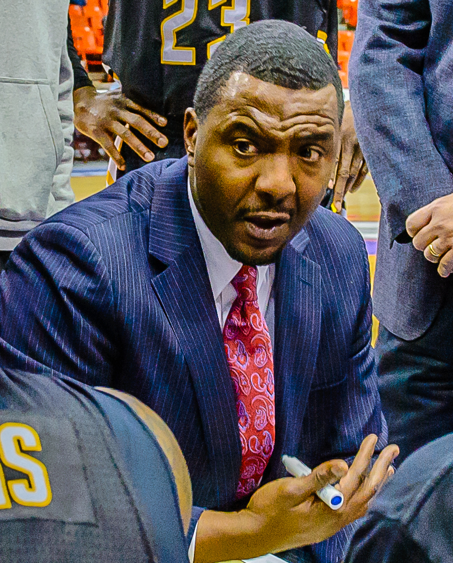 The London Lightning discussing what to do next against the Halifax Rainmen during NBLC action